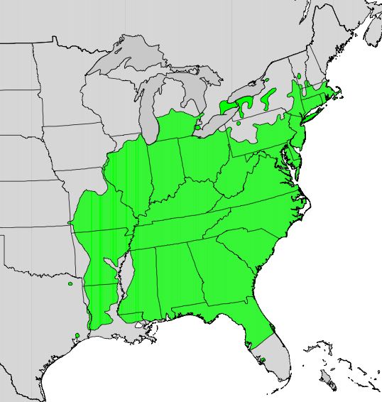 Range map of Carya glabra